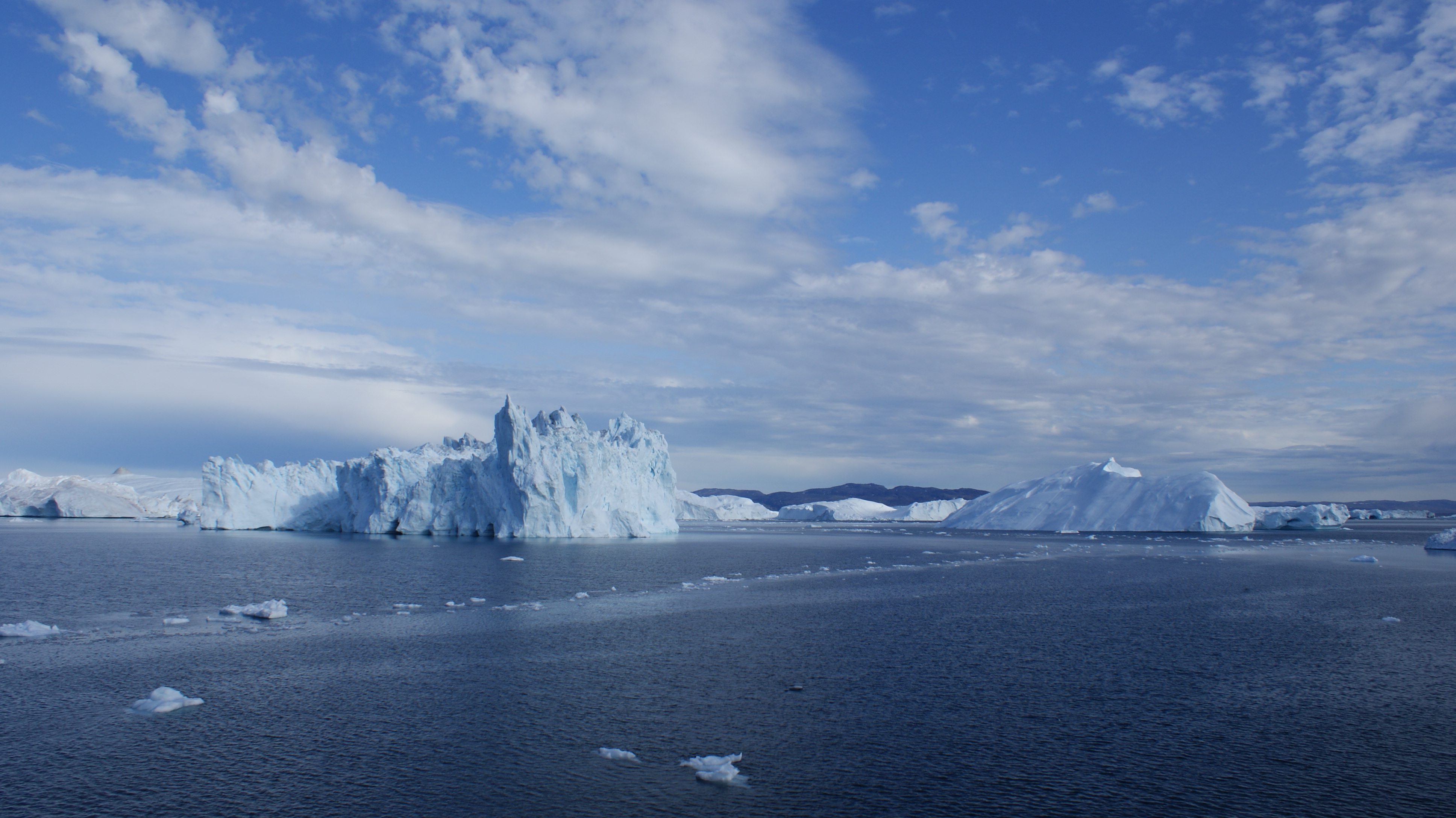 Icebergs in Disko Bay, Greenland. Photographed from Sarfaq Ittuk of Arctic Umiaq Line.